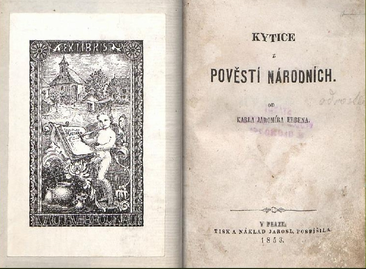 K.J.Erben: Kytice, Title pages, 1853